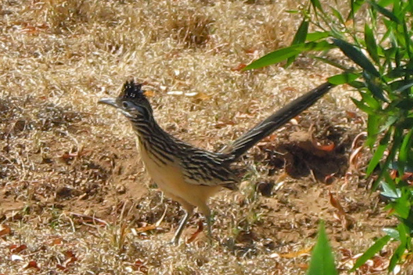 Lesser Roadrunner